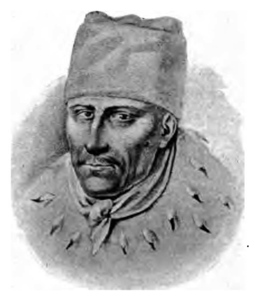 Jakob Joseph Baron von Frank-Dobrucki during his last years